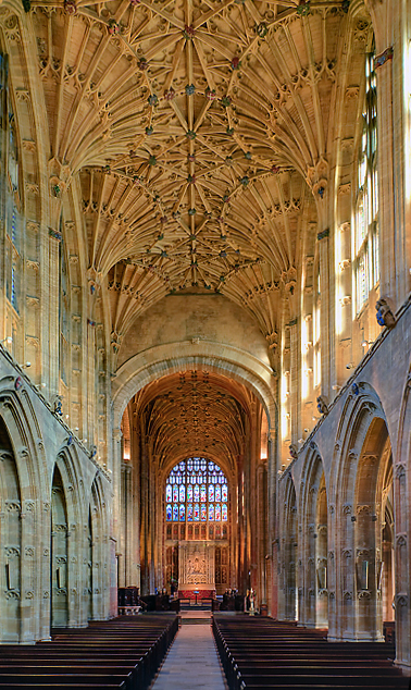 A brief tour of Sherborne Abbey - the nave (2)